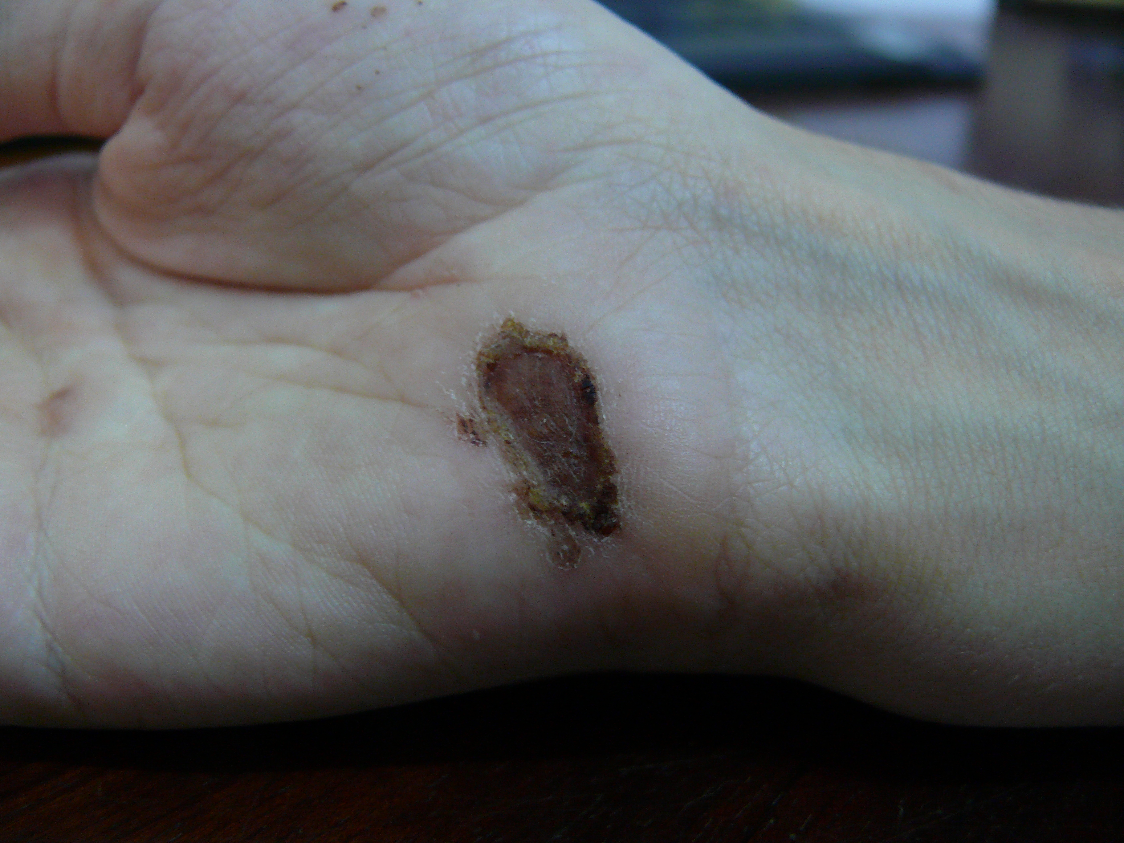 Wound on palm of hand nine days after falling off a bike onto concrete. Previous photos: Day 1: Image:Wound on palm of hand.jpg Day 2: Image:Wound on palm of hand - day 2.jpg Day 3: Image:Wound on palm of hand - day 3.jpg Day 4: Image:Wound on palm of hand - day 4.jpg Day 5: Image:Wound on palm of hand - day 5.jpg Day 6: Image:Wound on palm of hand - day 6.jpg Day 7: Image:Wound on palm of hand - day 7.jpg Day 8: Image:Wound on palm of hand - day 8.jpg Following photos: Day 10: Image:Wound on palm of hand - day 10.jpg Day 11: Image:Wound on palm of hand - day 11.jpg Day 12: Image:Wound on palm of hand - day 12.jpg Day 13: Image:Wound on palm of hand - day 13.jpg Day 14: Image:Wound on palm of hand - day 14.jpg Day 15: Image:Wound on palm of hand - day 15.jpg Day 16: Image:Wound on palm of hand - day 16.jpg Day 17: Image:Wound on palm of hand - day 17.jpg Day 18: Image:Wound on palm of hand - day 18.jpg Day 19: Image:Wound on palm of hand - day 19.jpg Day 20: Image:Wound on palm of hand - day 20.jpg